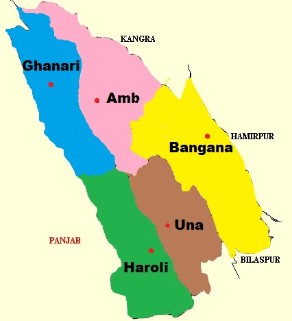 This image shows tehsils of district una himachal pradesh. Tehsil ghanari, tehsil haroli, tehsil amb, tehsil bangana, tehsil una, gagret, daulatpur, santoshgarh, panjawar, chalet, amboa, mawa, nangal, deoli, saghnai, ambota, kaloh, badoh, oel, tathera, mubarakpur, chintpurni, bharwain, basal, thana kalan, marwari